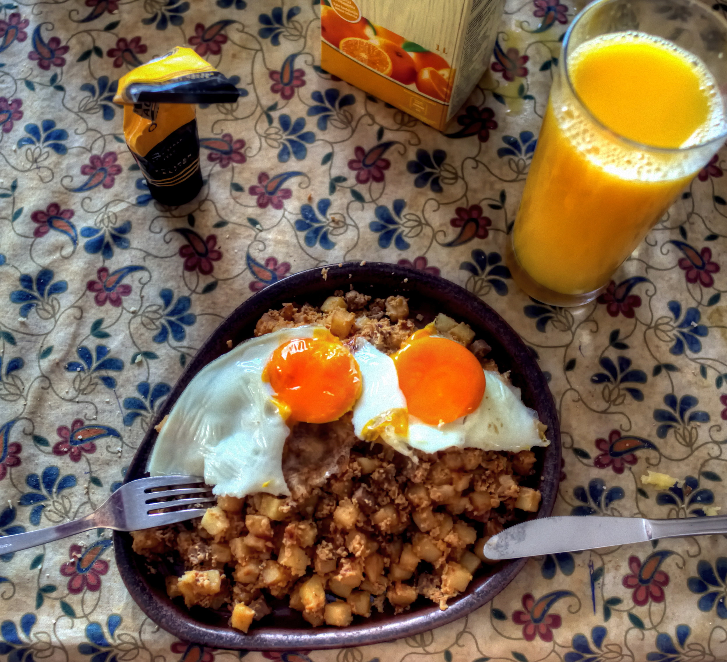 Ylämaalainen pyttipannu